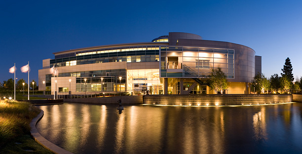 Milpitas, CA City Hall